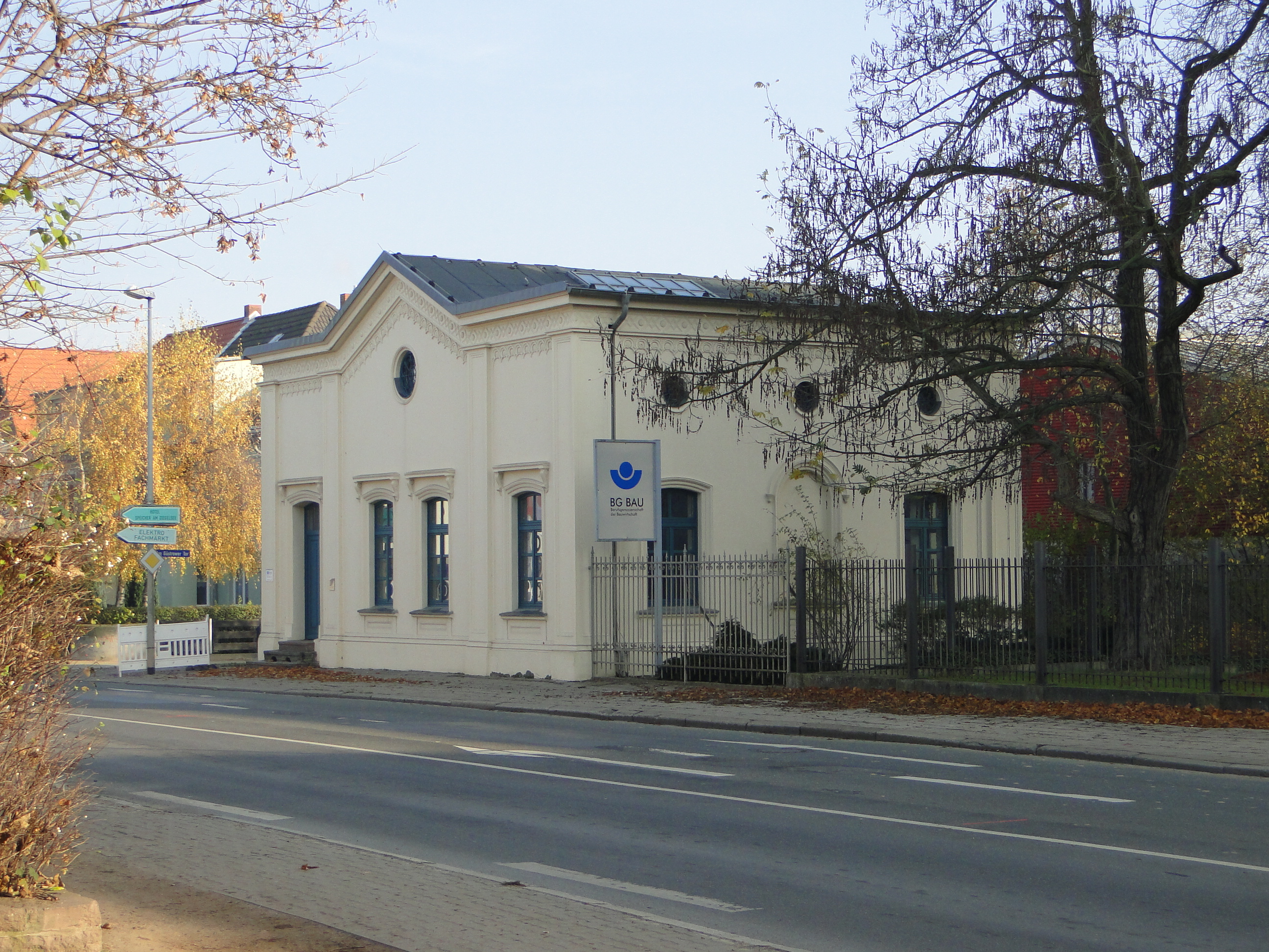 Street Werderstraße in Schwerin, Mecklenburg-Vorpommern, Germany